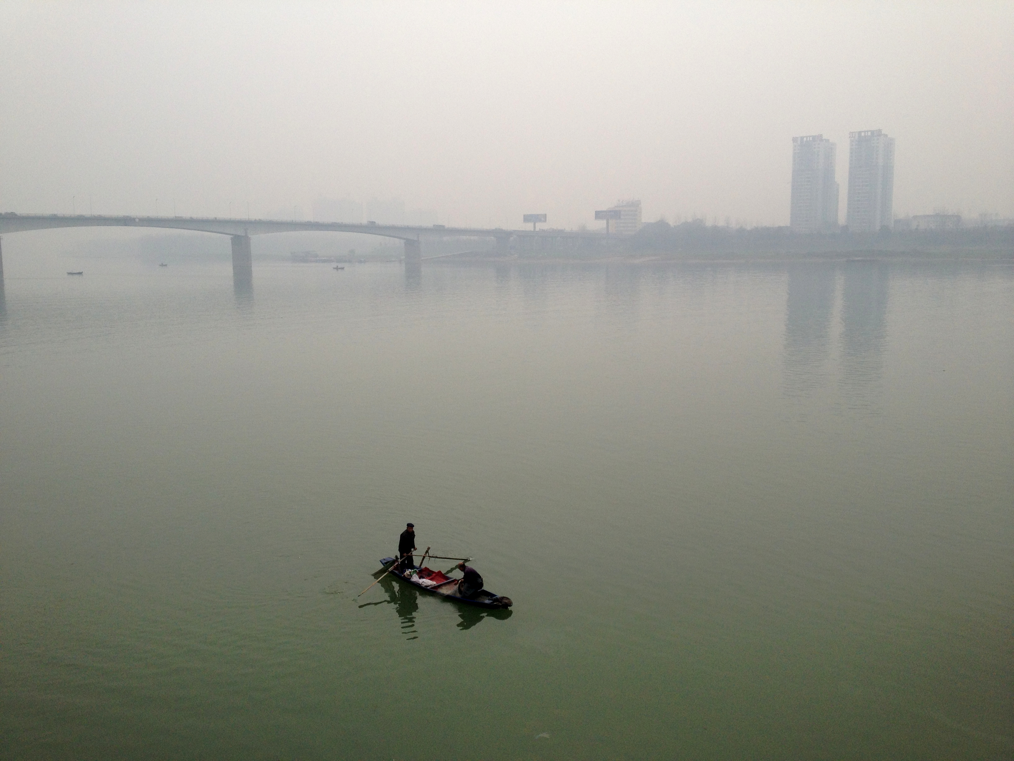 Two fishermen on the Yuan river in downtown Changde on a hazy day in December. The brigde and Jiangnan district can be seen in the background.